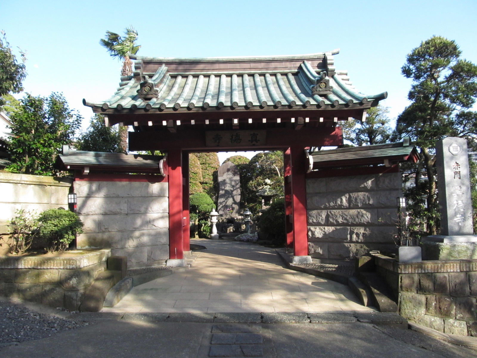 Sanmon at Shintoku-ji in Fujisawa City, Kanagawa Prefecture, Japan